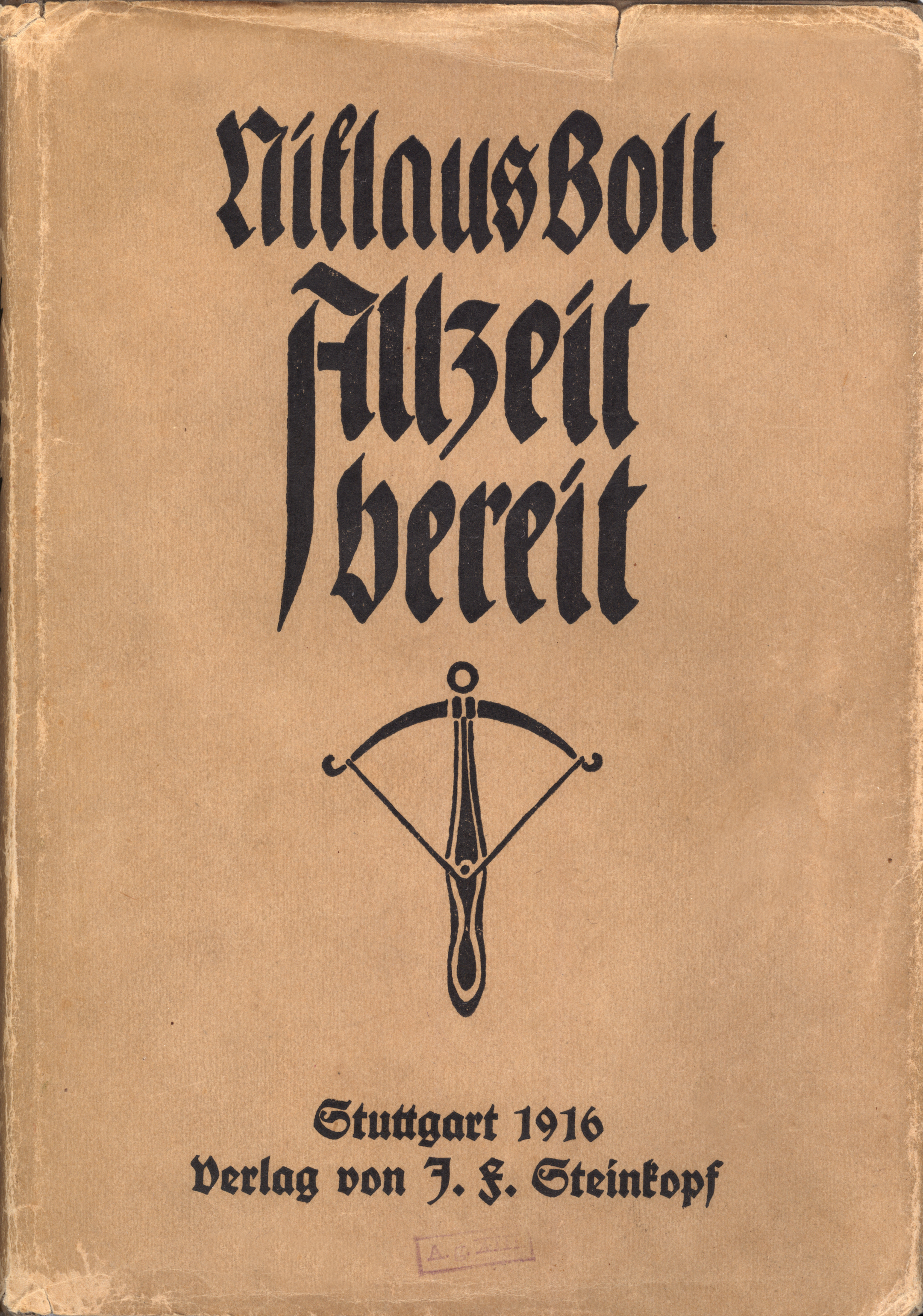 historic Boy Scout handbook "Allzeit bereit" (Be Prepared) from 1916